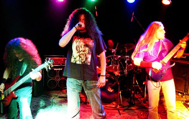 Epicedium live 2004, von links: Galletta, Henschel und Köstler